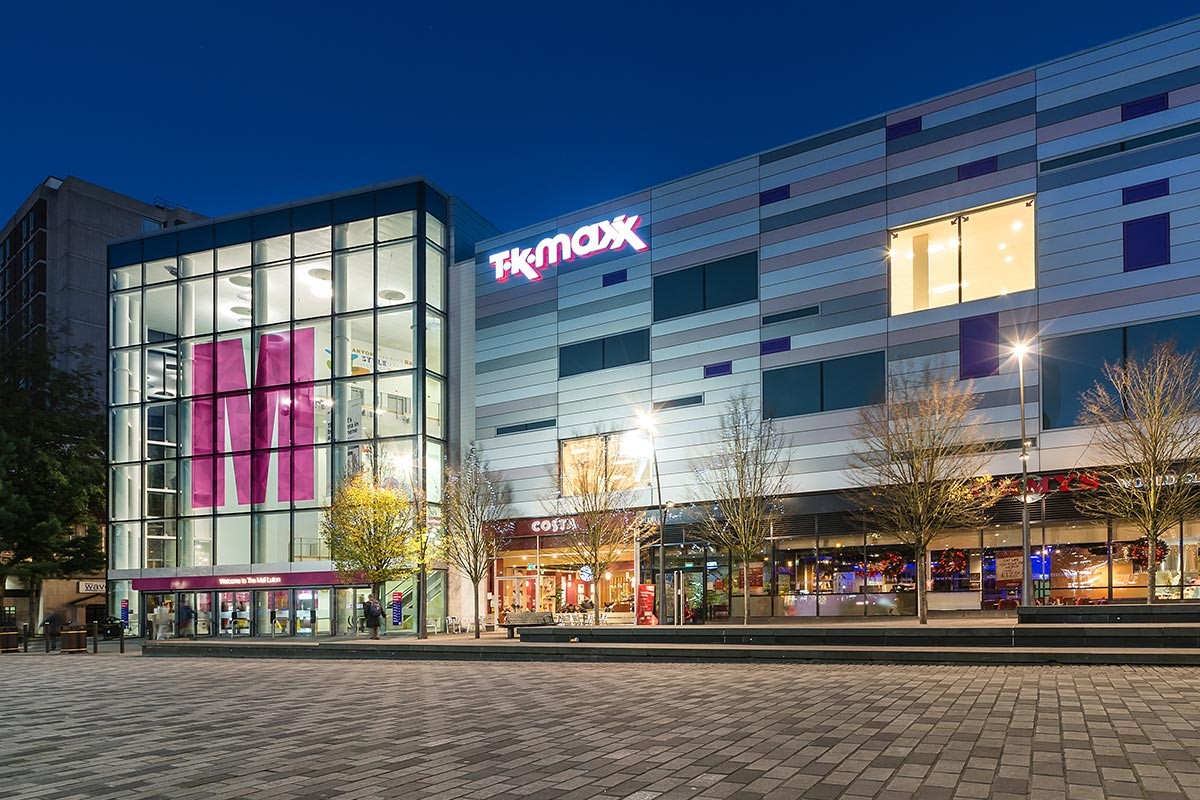 Luton Mall at Night